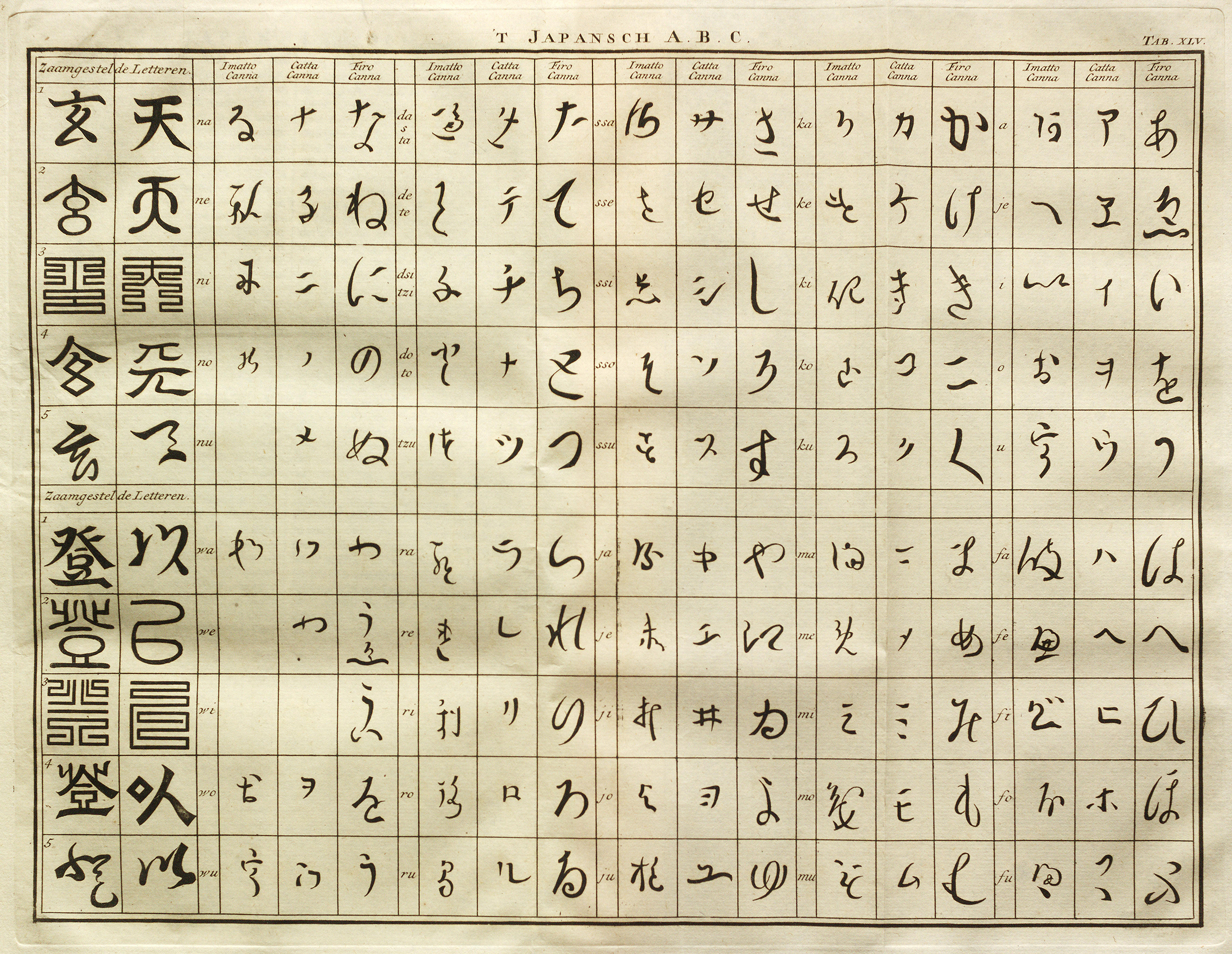 From Dutch translation of Engelbert Kaempfer: The History of Japan (1727). Listing firo-canna (modern romanisation: Hiragana) and catta-canna (modern romanisation: Katakana), alongside "imatto-canna" (mostly variant kana, or "Hentaigana", mistaken as a congruent syllabary). Two rows of right-to-left columns, top comes before bottom. Written out using Japanese consonant ordering but Roman vowel ordering. Each column is written in right-to-left columns of Hiragana, then Katakana, then "imatto" kana, and romanisation (which differs from modern romanisations in places) last (leftmost) of all.